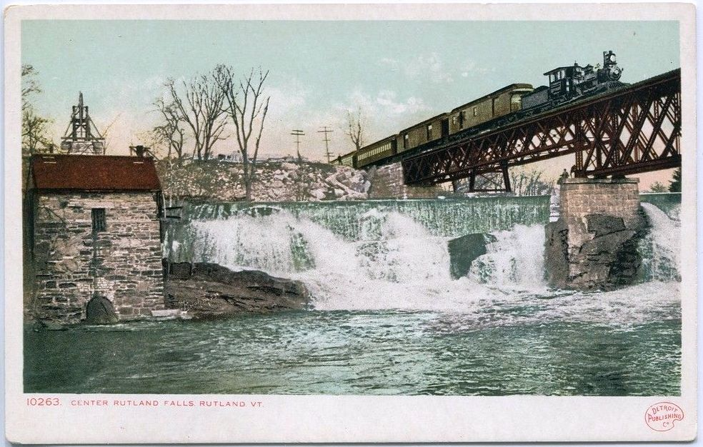 Center Rutland Falls, Rutland, Vermont; on an early postcard printed by the Detroit Publishing Company. This popular view was repeated by several other postcard companies with minor variations.